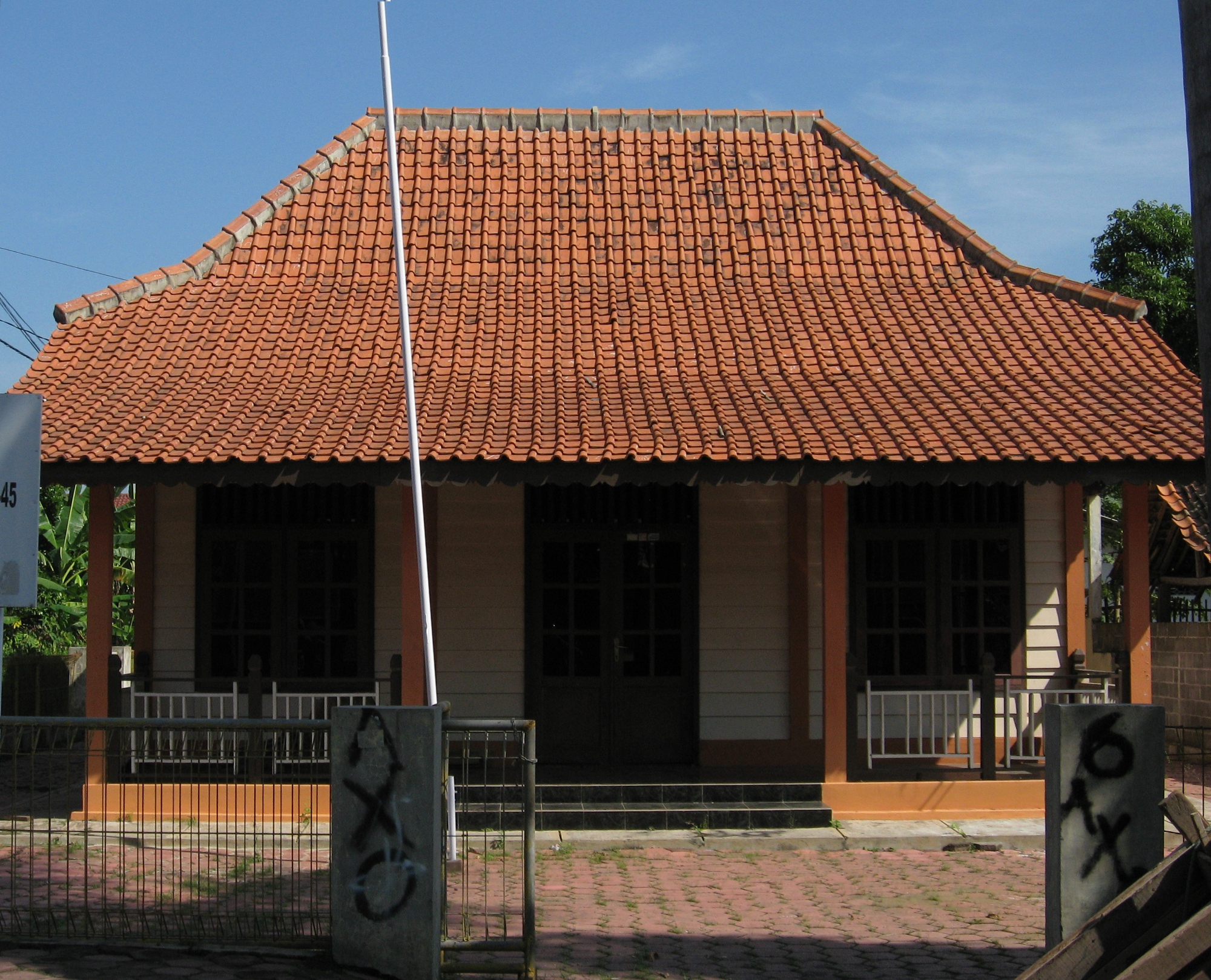 Birthplace of Indonesian general Oerip Soemohardjo, in Sindurjan, Purworejo, Indonesia